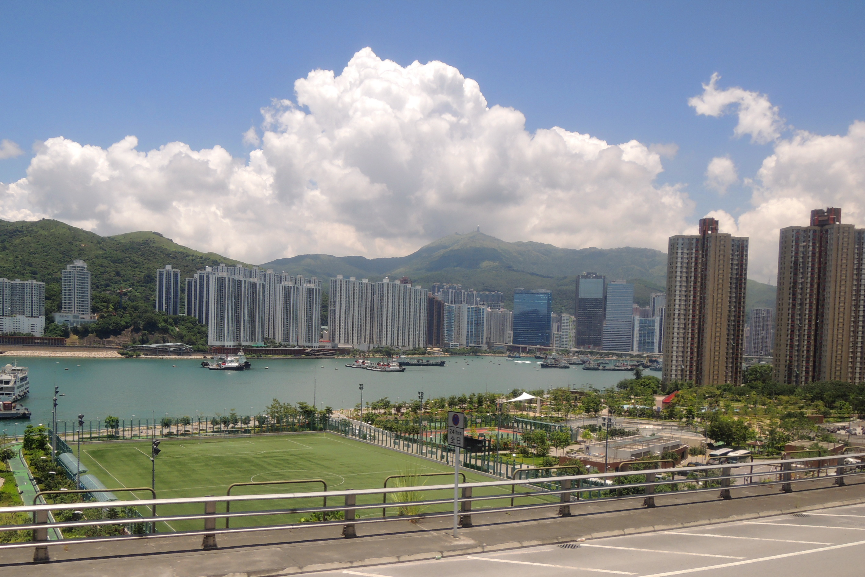 Soccer pitch in the Tsing Yi Northeast Park, Hong Kong.